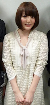 To my right is the most sweetsome anime voice actress Kana Hanazawa [花澤 香菜] who I was MC'ing for on stage.